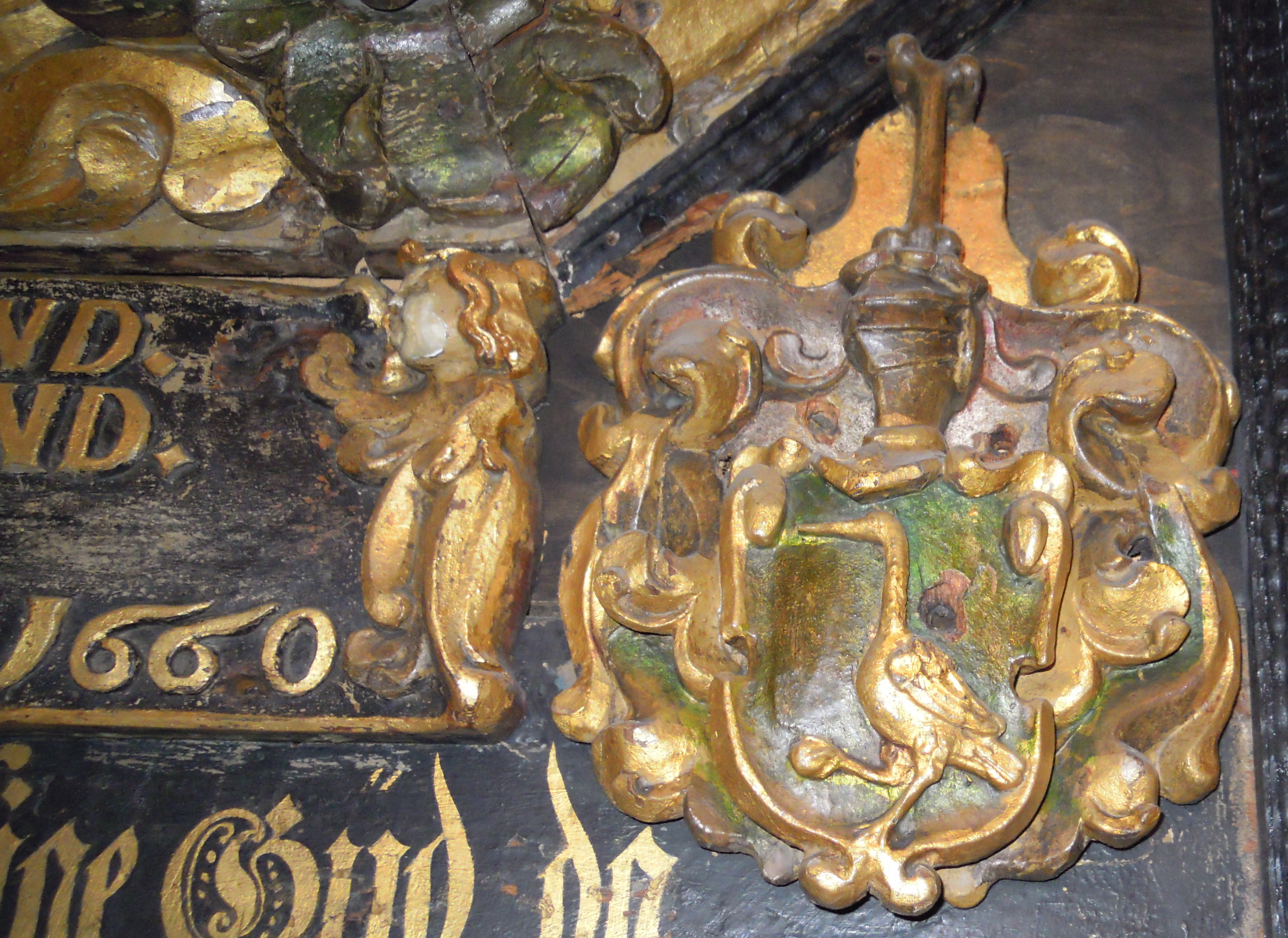 Heraldry of Elisabet Christensdatter Trane, Stavanger Cathedral, Norway